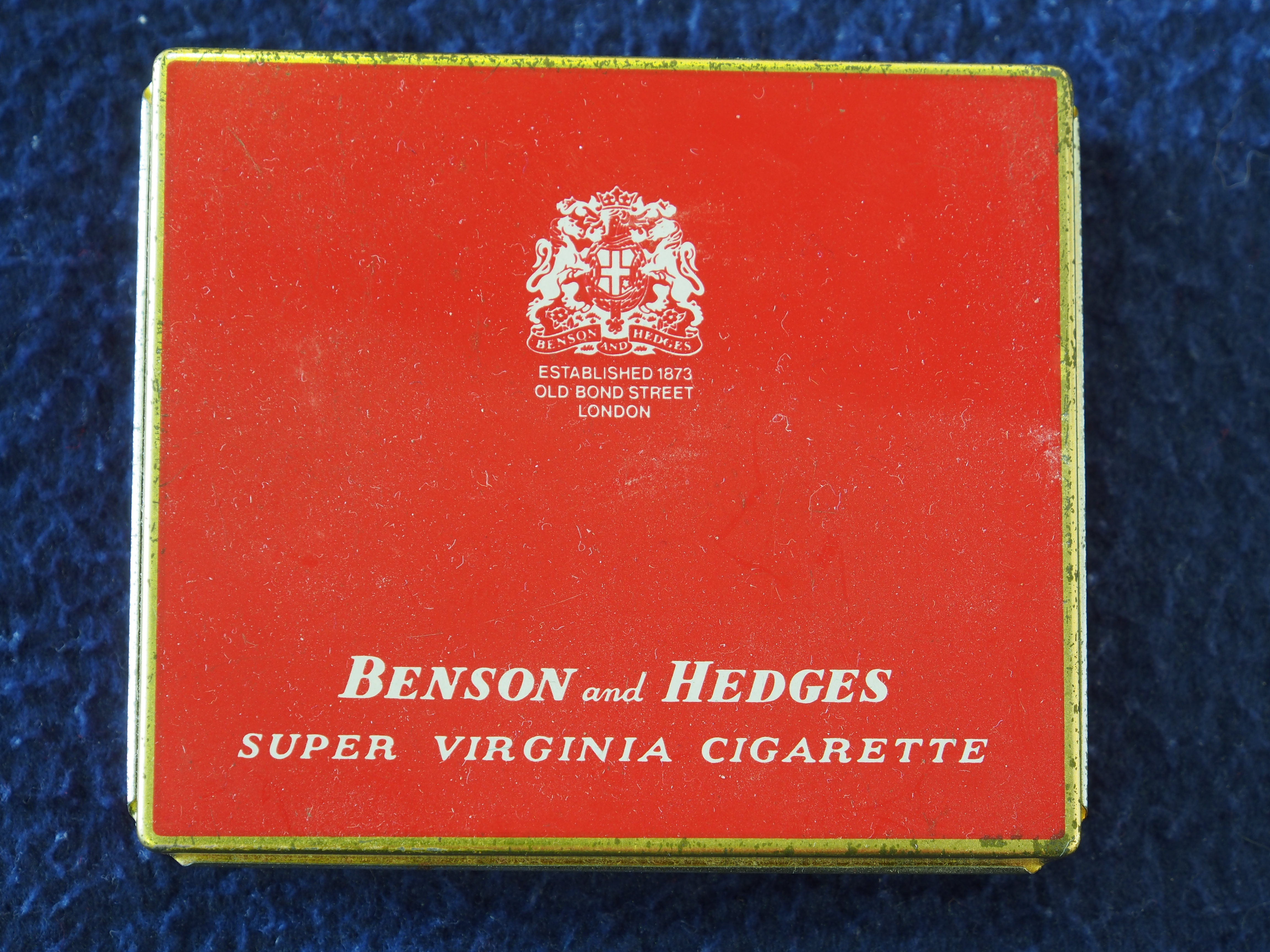 Old product that is not produced and not sold anymore for a very long time and the company does not exist anymore either.